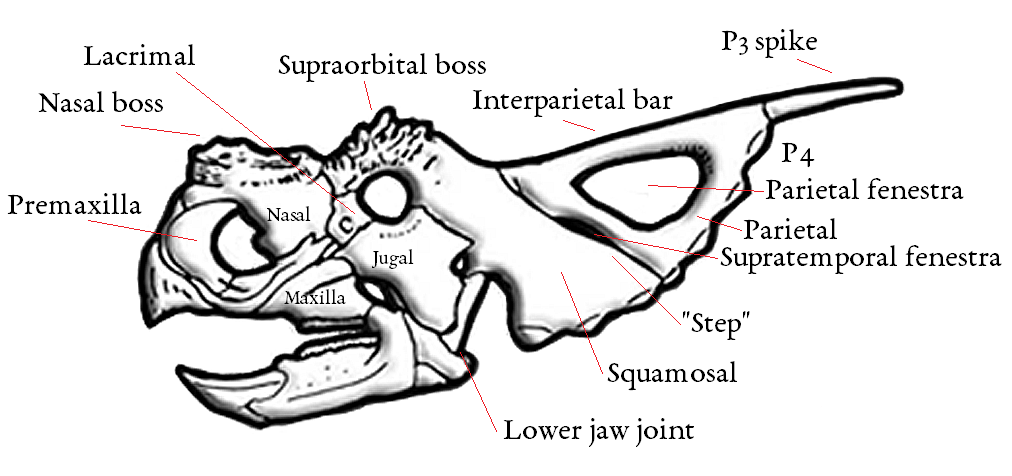 Achelousaurus skull diagram with added explanations